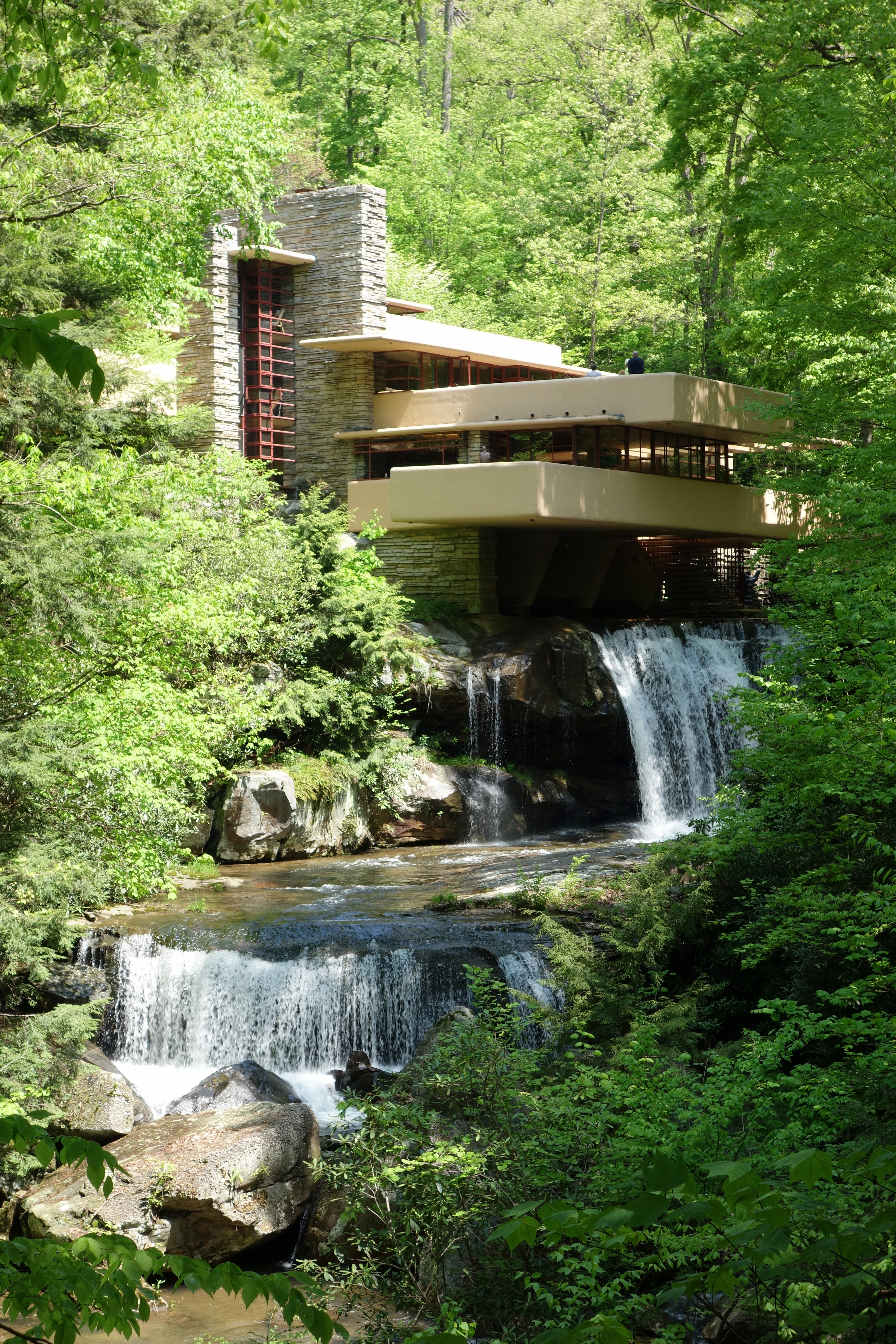 Fallingwater (Kaufmann Residence) by Frank Lloyd Wright. Photography of the exterior was permitted without restriction.